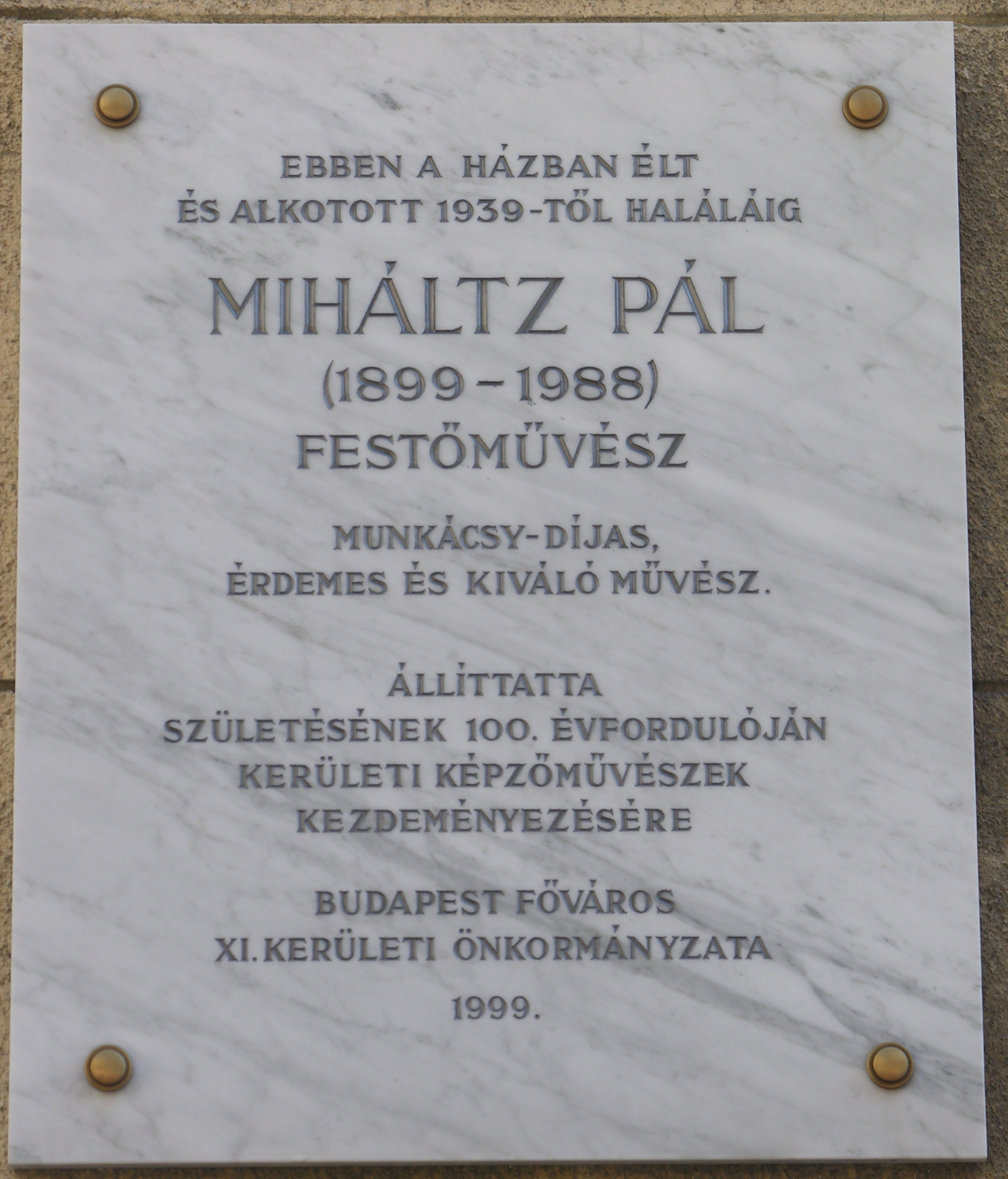 Commemorative plaque of Pál Miháltz in Budapest District XI, Lágymányosi Street No 17/a (Vak Bottyán Street side)